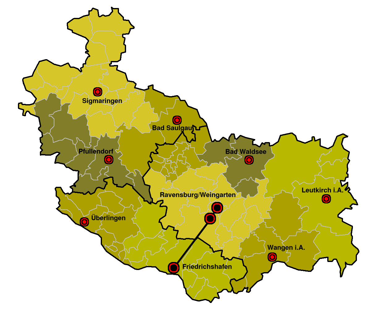 Maps of planning regions (Mittelbereiche) in the region Bodensee-Oberschwaben, Baden-Württemberg, Germany